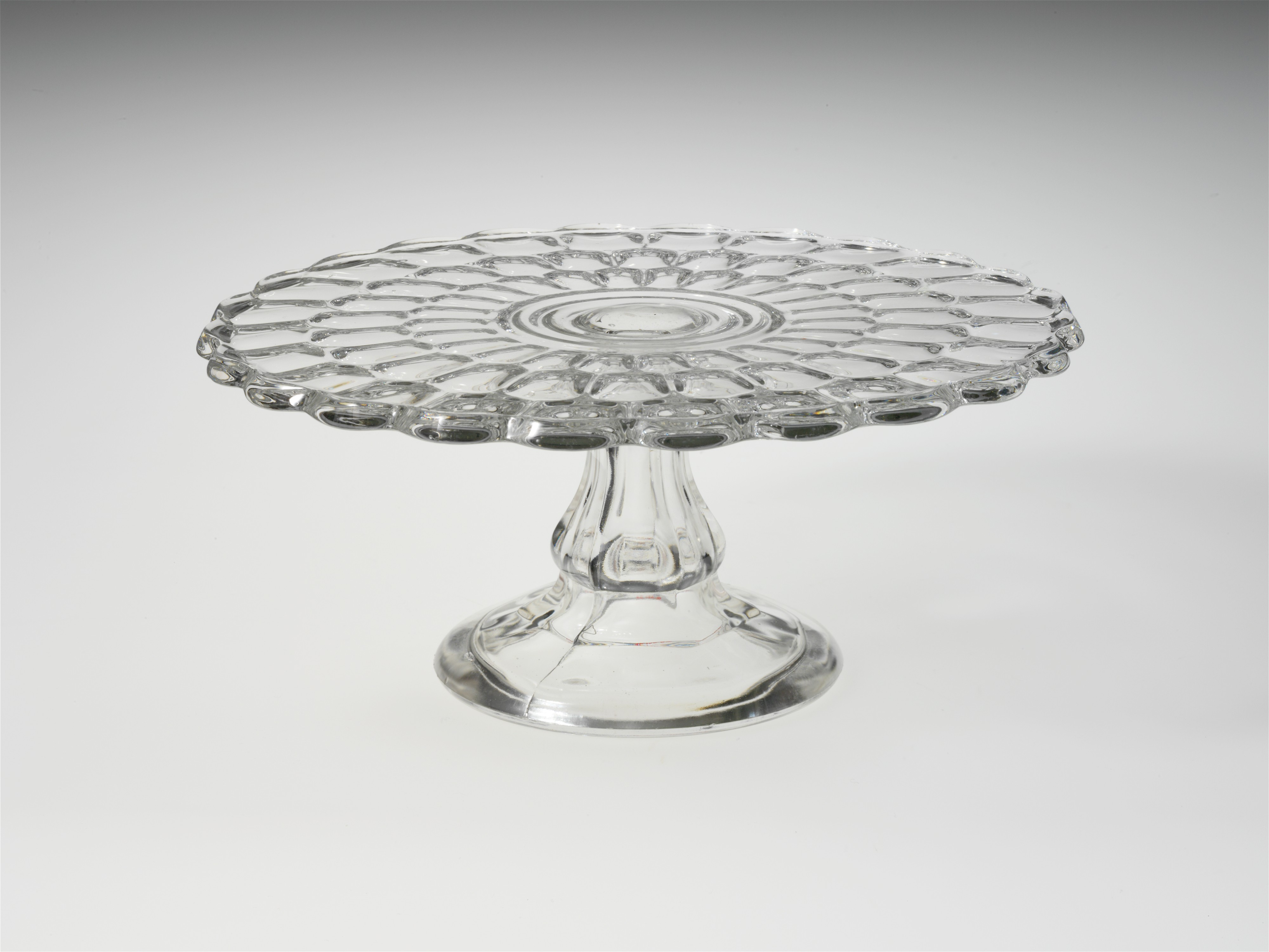 American; Cake stand; Glass